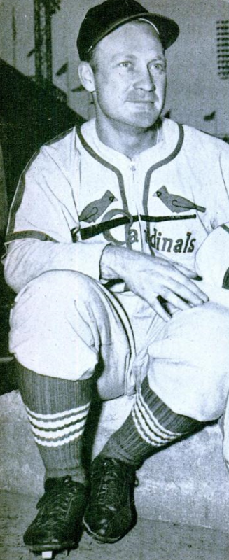 An image of Major League Baseball third baseman Whitey Kurowski.